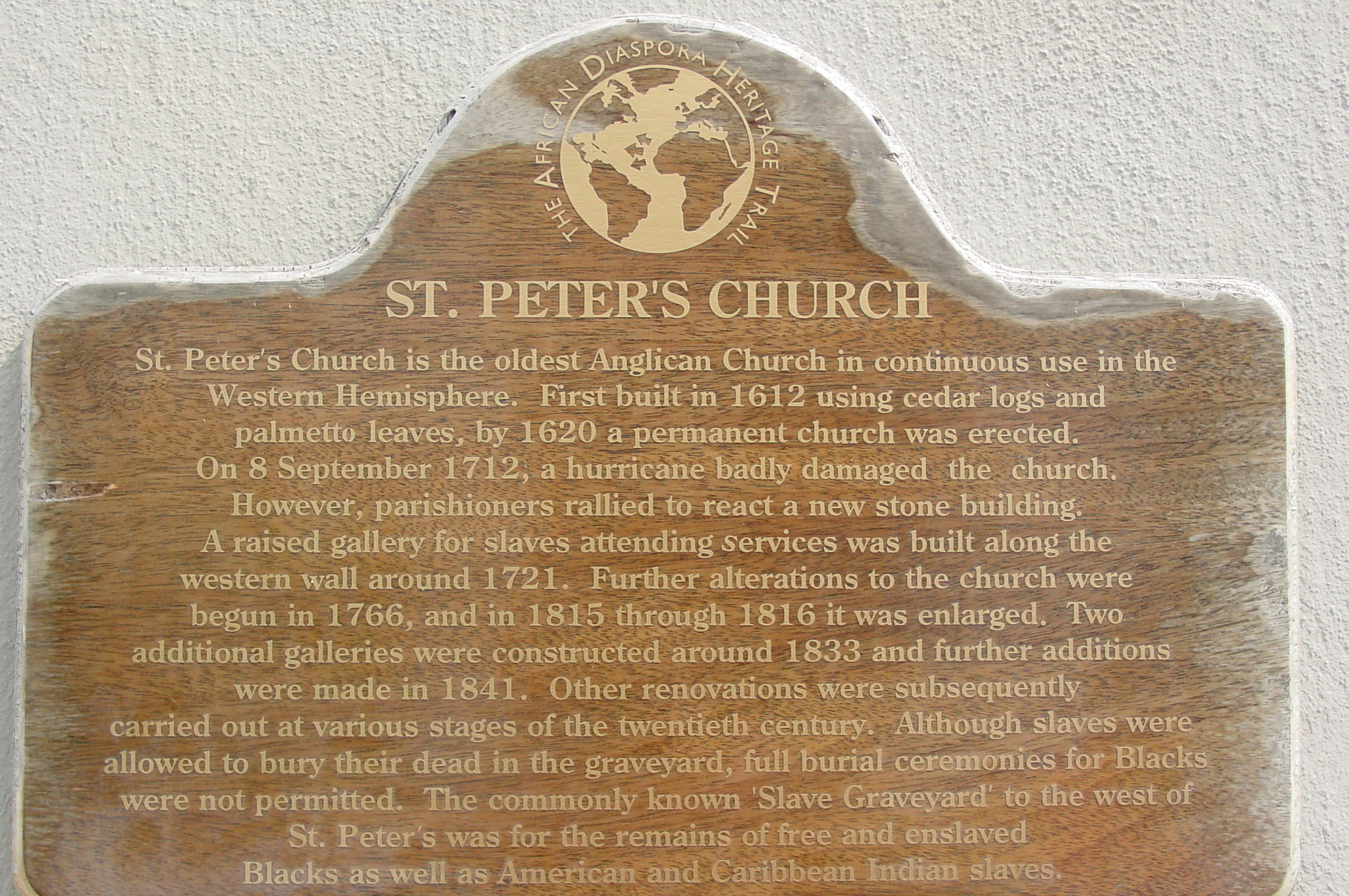 The sign describing Saint Peter's Church, in St. George's, Bermuda.